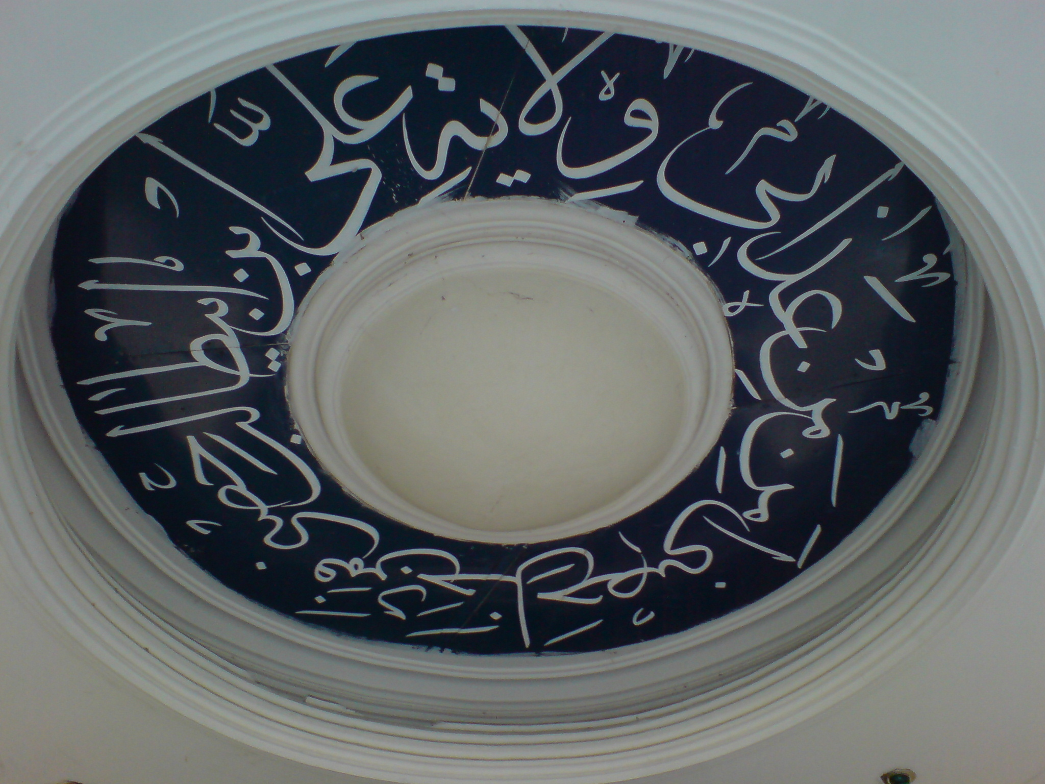 Silsilat_ul-Zahab_Hadith-Ghadir_library